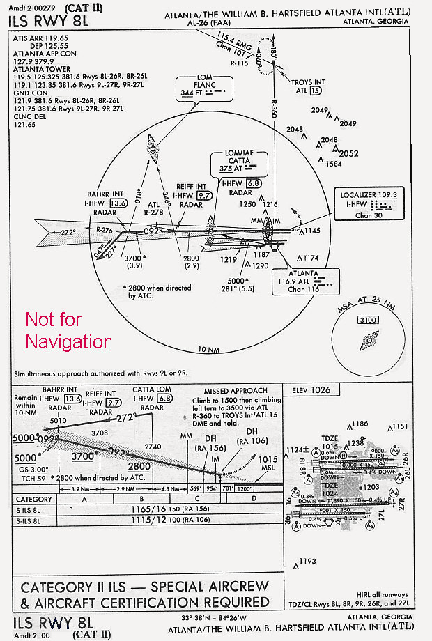 NOS Approach Plate